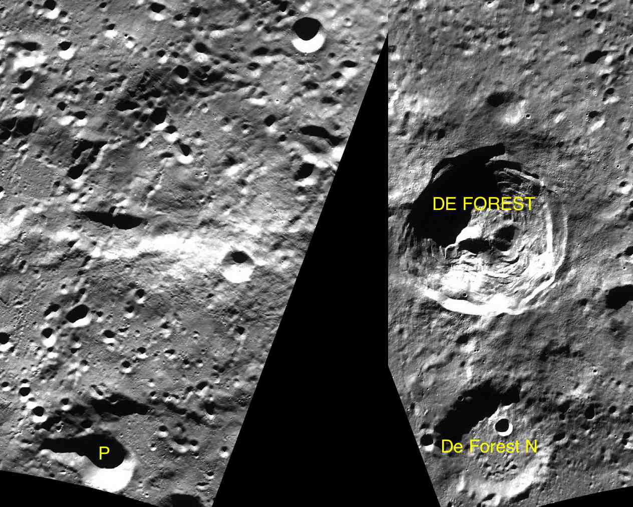 Parts of the charts LAC-141, LAC-142 used for the presentation